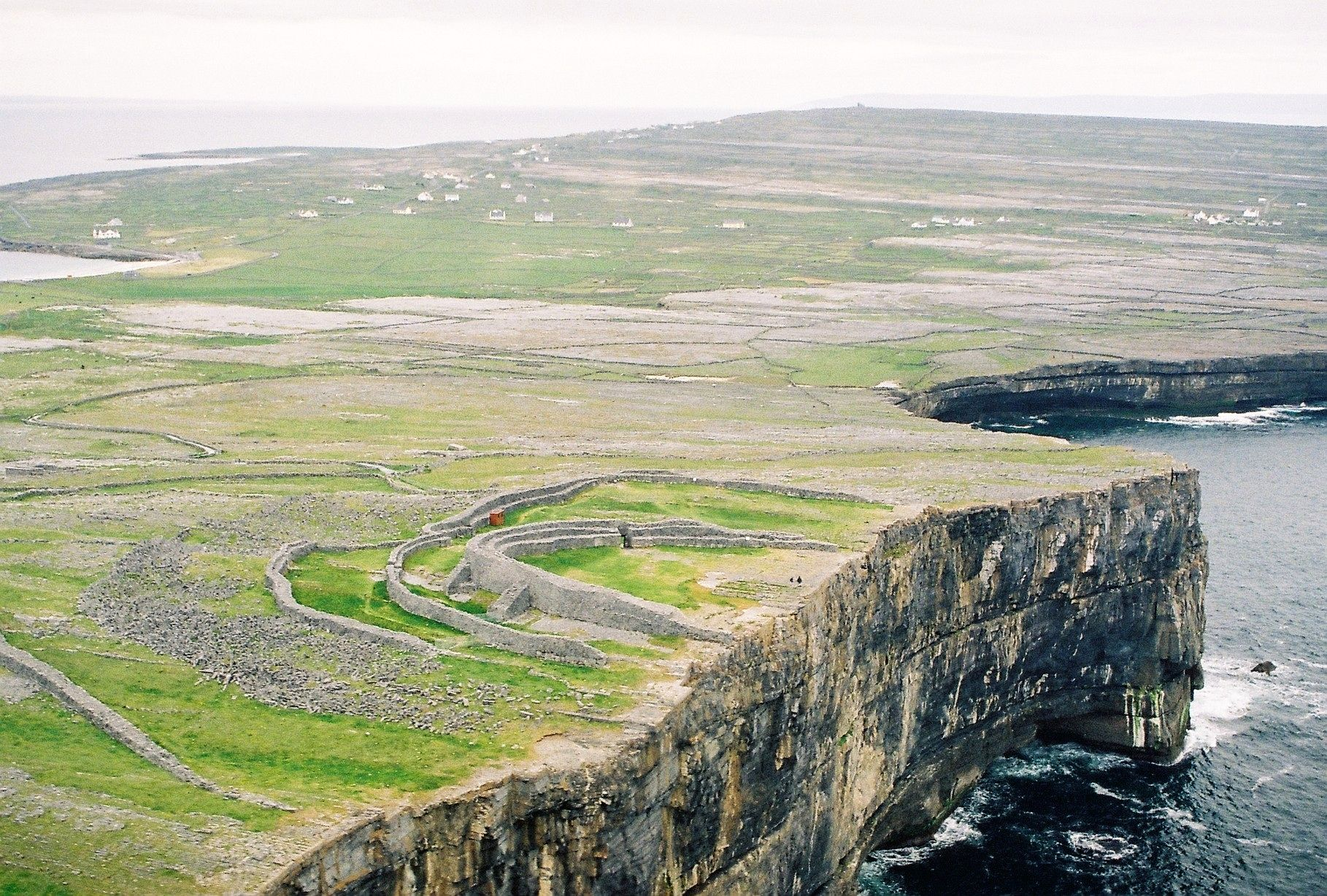 Dun Aengus Promontory Fort